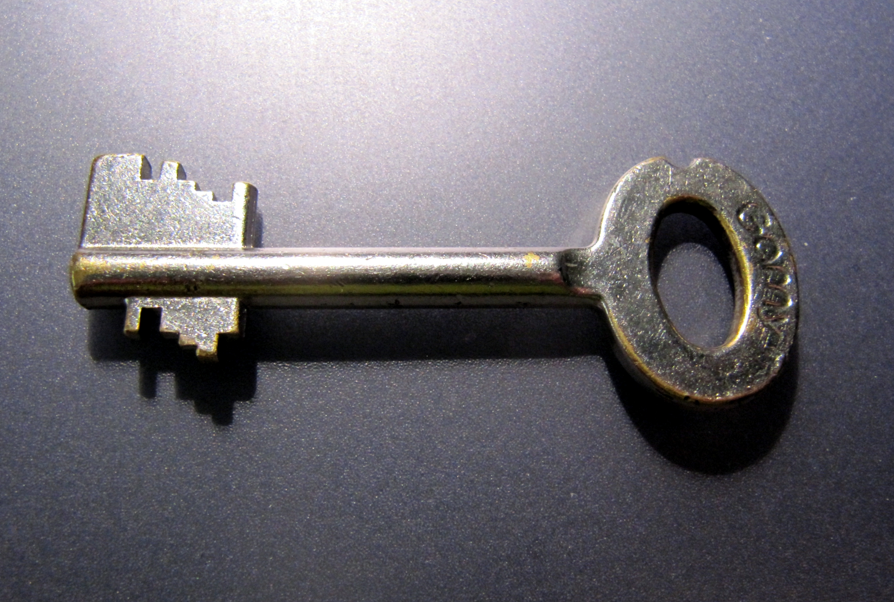 A safe deposit key, typical for German bank vaults